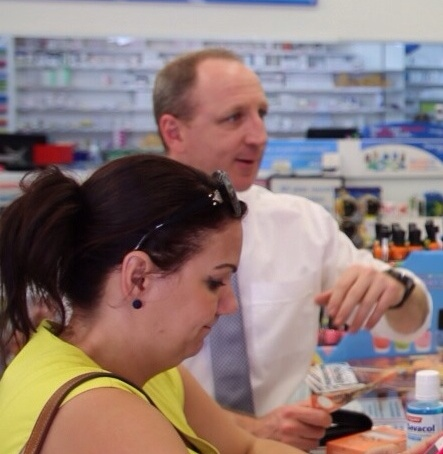 Luke Howarth visiting Woody Point Pharmacy in the electorate of Petrie